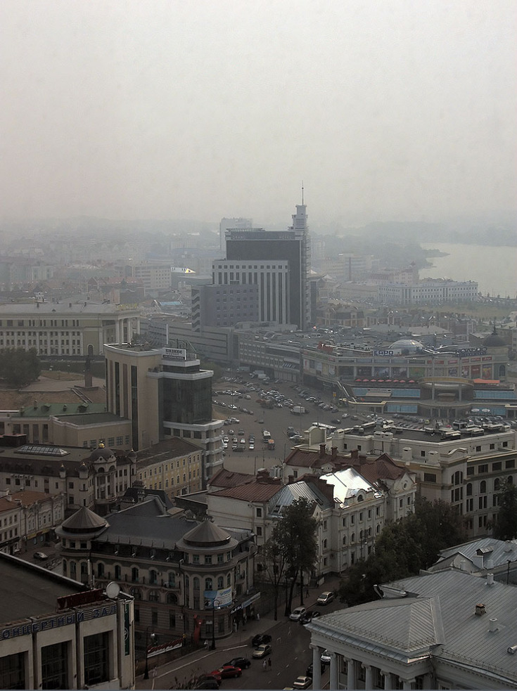 Smoke in Kazan city